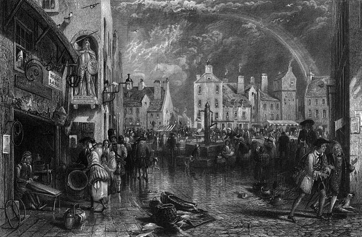 Ayr Market Cross engraving by William Miller after D O Hill from The Land of Burns, A Series of Landscapes and Portraits, Illustrative of the Life and Writings of the Scottish Poet. illus. with numerous engraved plates and portraits, the landscapes from paintings made expressly for the work by D.O. Hill. Wilson, Professor and Chambers, Robert, Glasgow: Blackie & Son, 1840